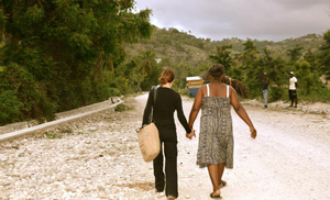 Jodi Shelton walks hand-in-hand with a local woman on her last visit to Haiti with the BuildOn organization